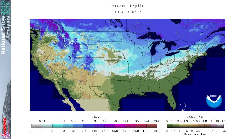 National Weather Service map showing snow depth for the US and part of Canada for January 7, 2014.